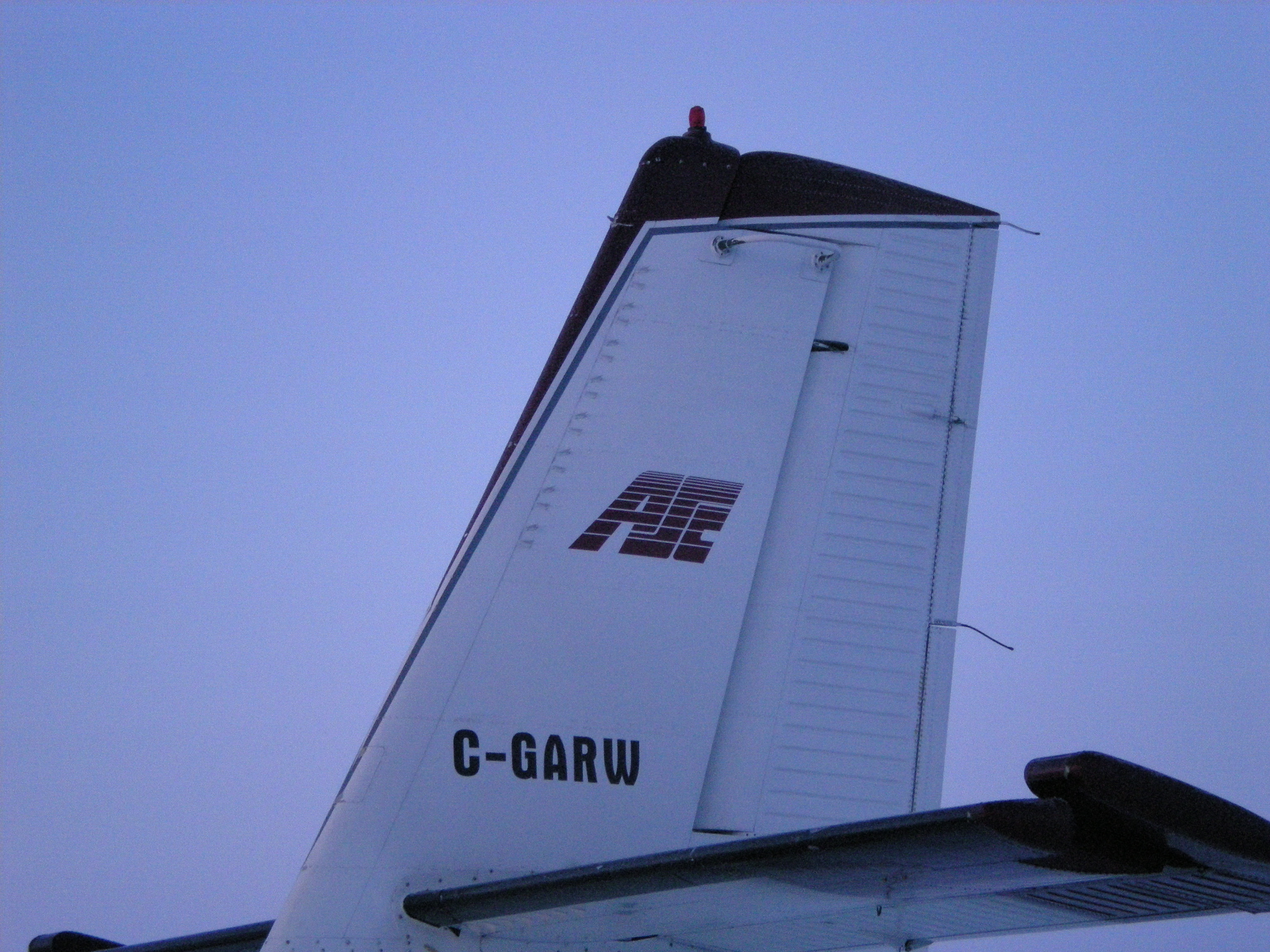 Logo on tail of Arctic Sunwest Charters Twin Otter, C-GARW